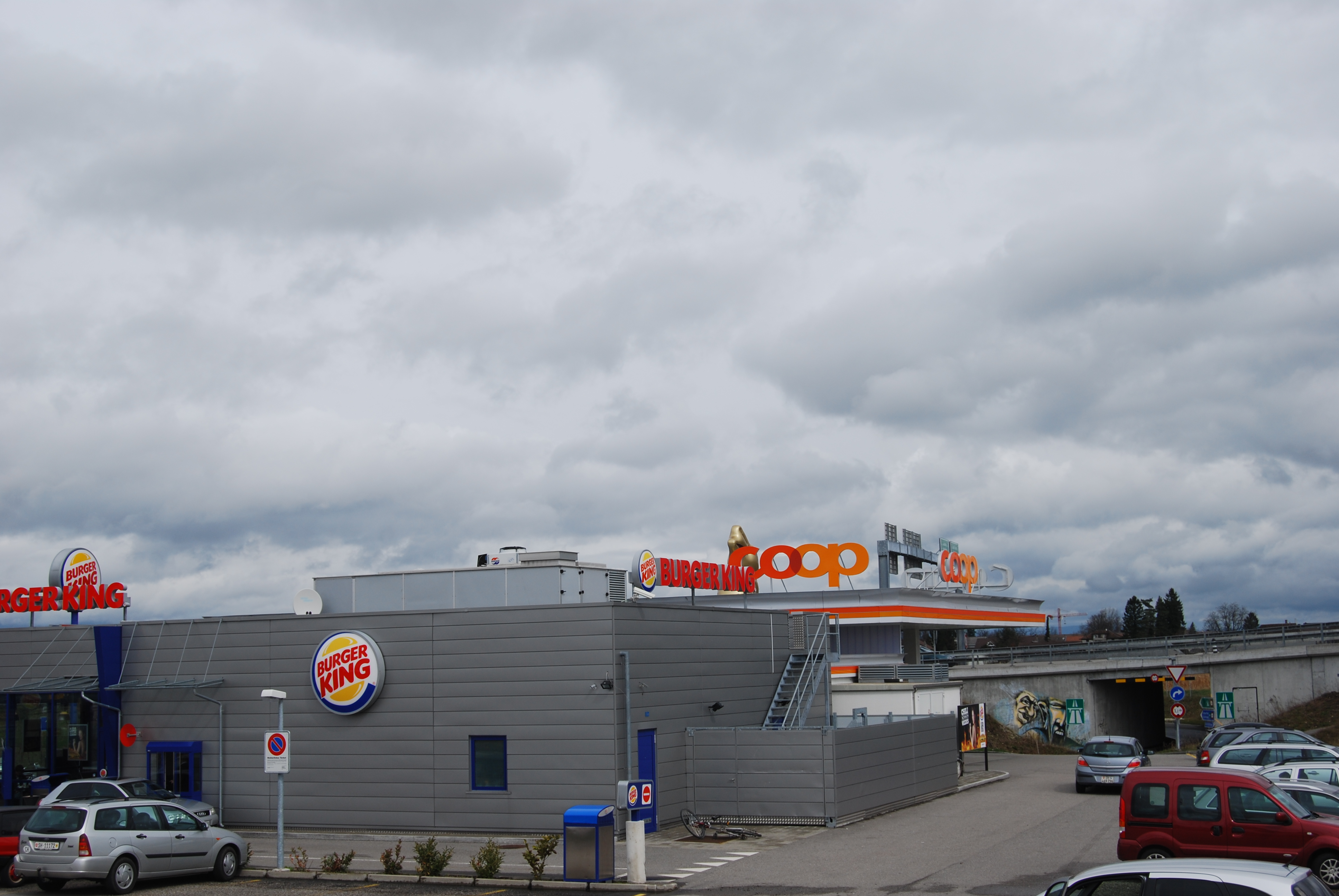 Rüdtligen-Alchenflüh, canton of Bern, SwitzerlandEsperanto: Rüdtligen-Alchenflüh, Kantono Berno, Svislando